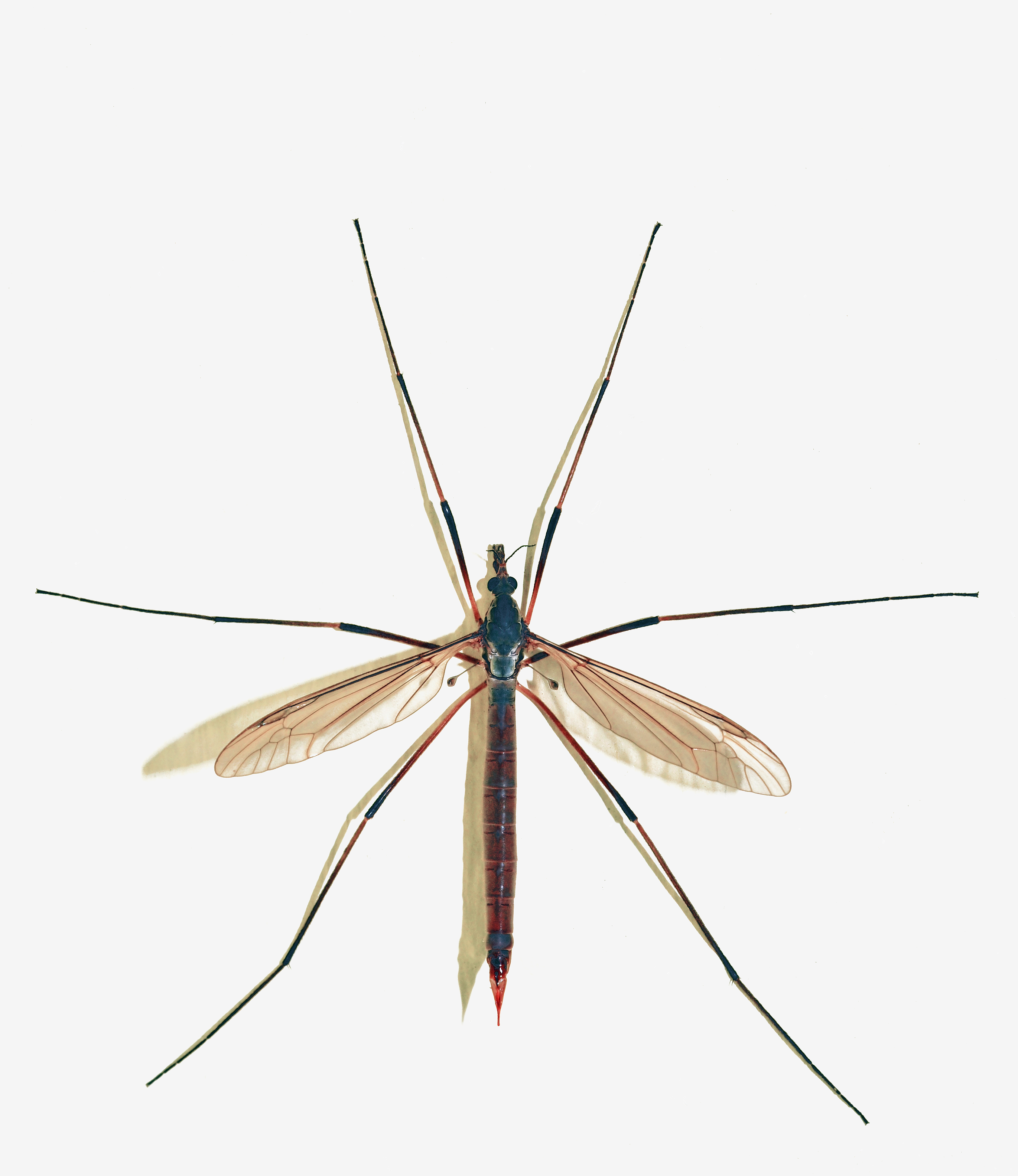 Tipula oleracea female